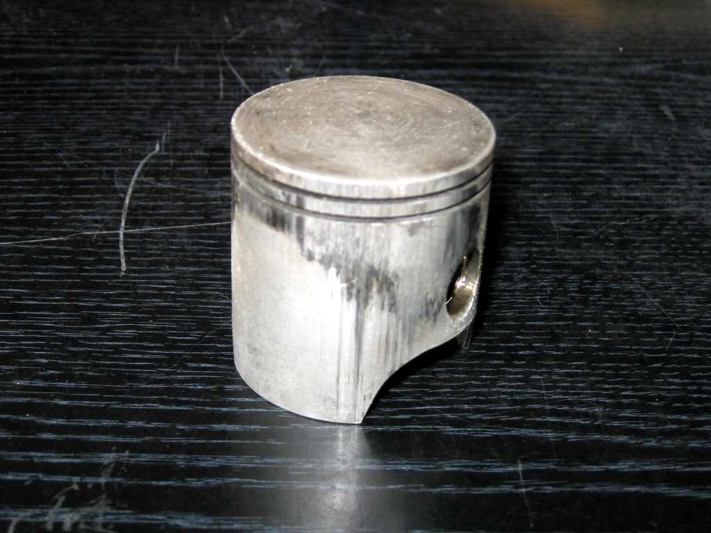 Damaged (scratched) piston from 50 ccm 2-stroke engine.